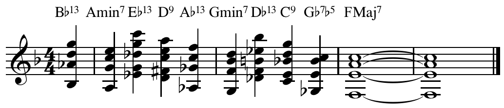 Approach chords in a vi-ii-V-I turnaround in F. Created by Hyacinth (talk) 07:24, 12 December 2010 using Sibelius 5.